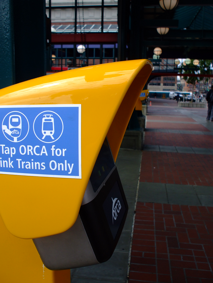 ORCA readers marking the entrance to the Chinatown-International District Link station.